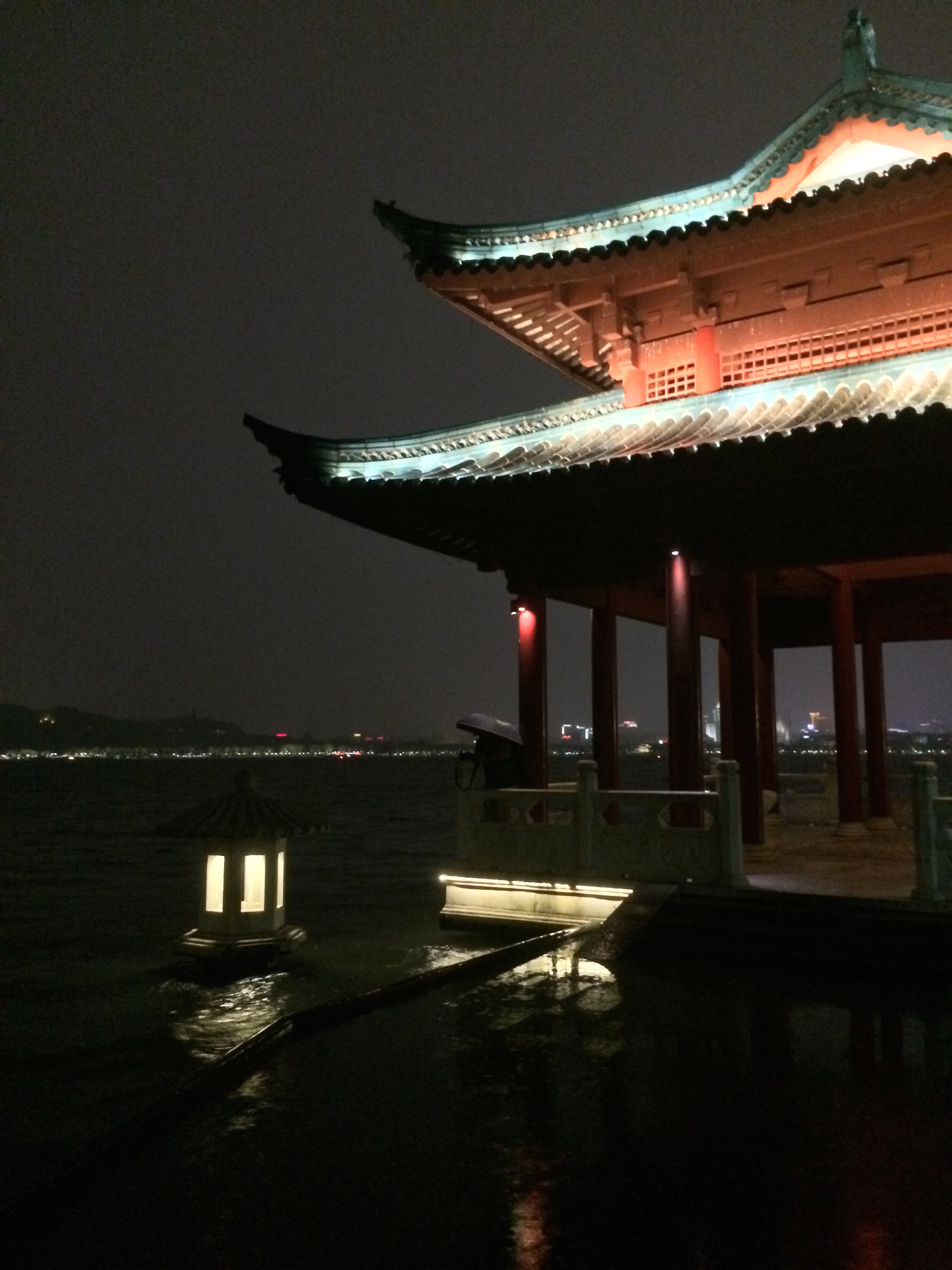 Cuiguang Pavilion by the West Lake, Hangzhou